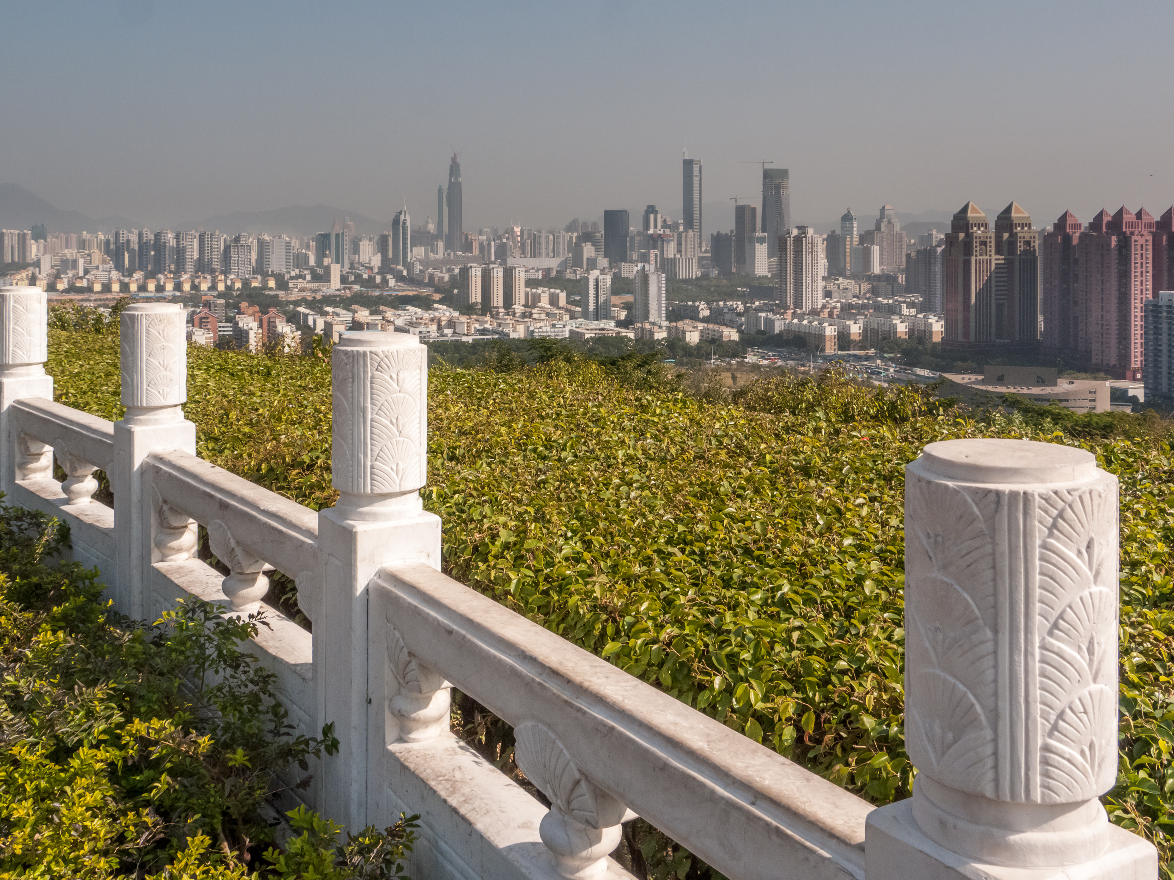 View from the Shenzhen Lotus Hill Park over the city